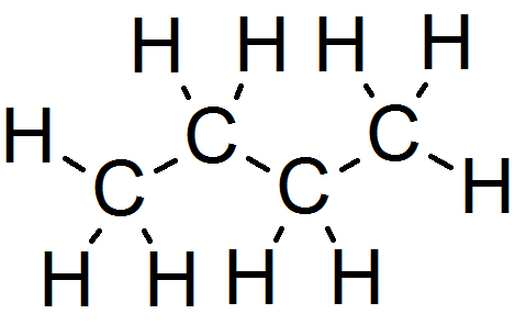 Structure of butane with angled bonds, with all atoms explicitly shown. Part of a series drawn in SymyxDraw with ACS settings.